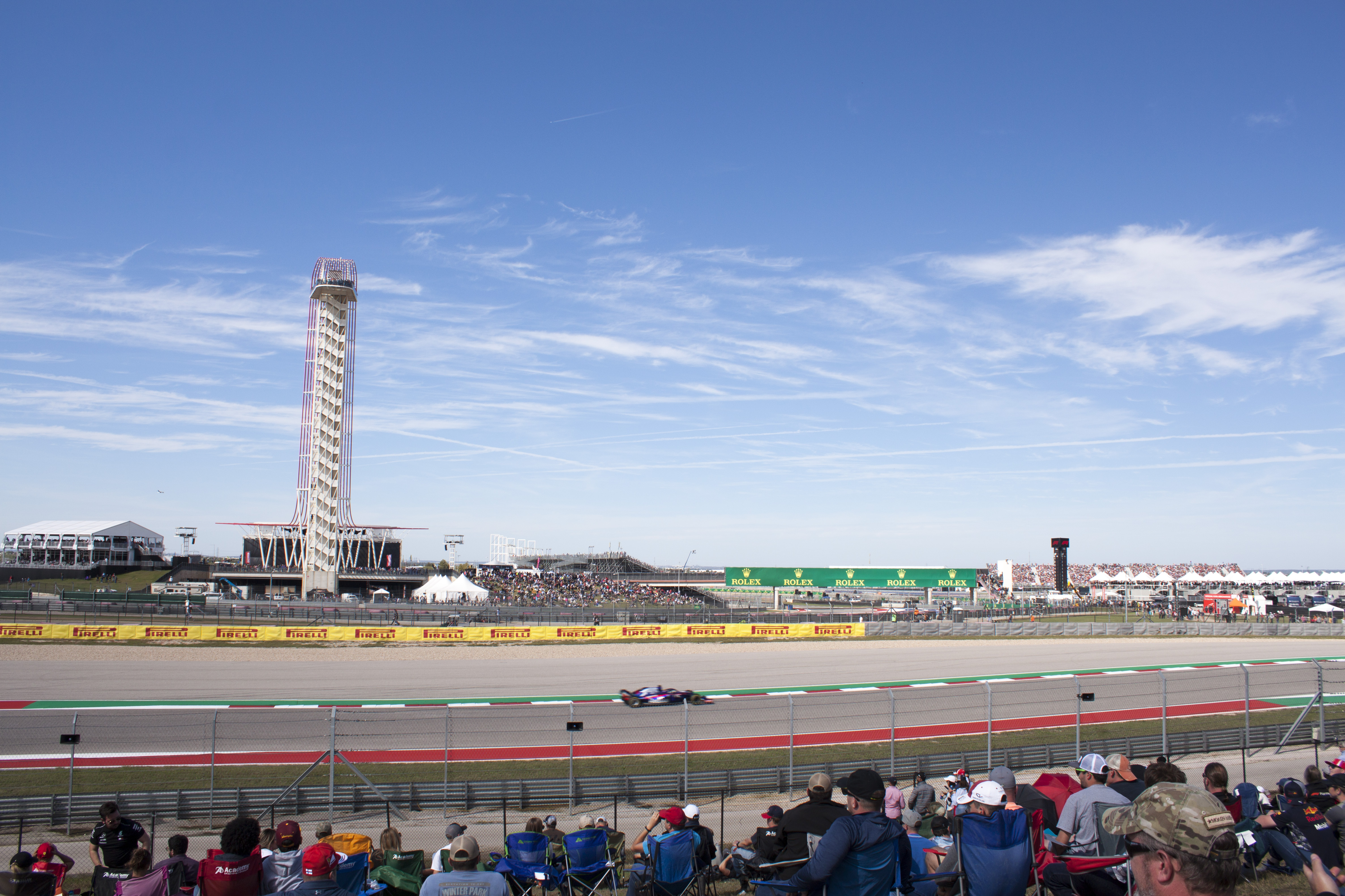 Circuit of the Americas during the 2018 US F1 Grand Prix with Scuderia Toro Rosso on track